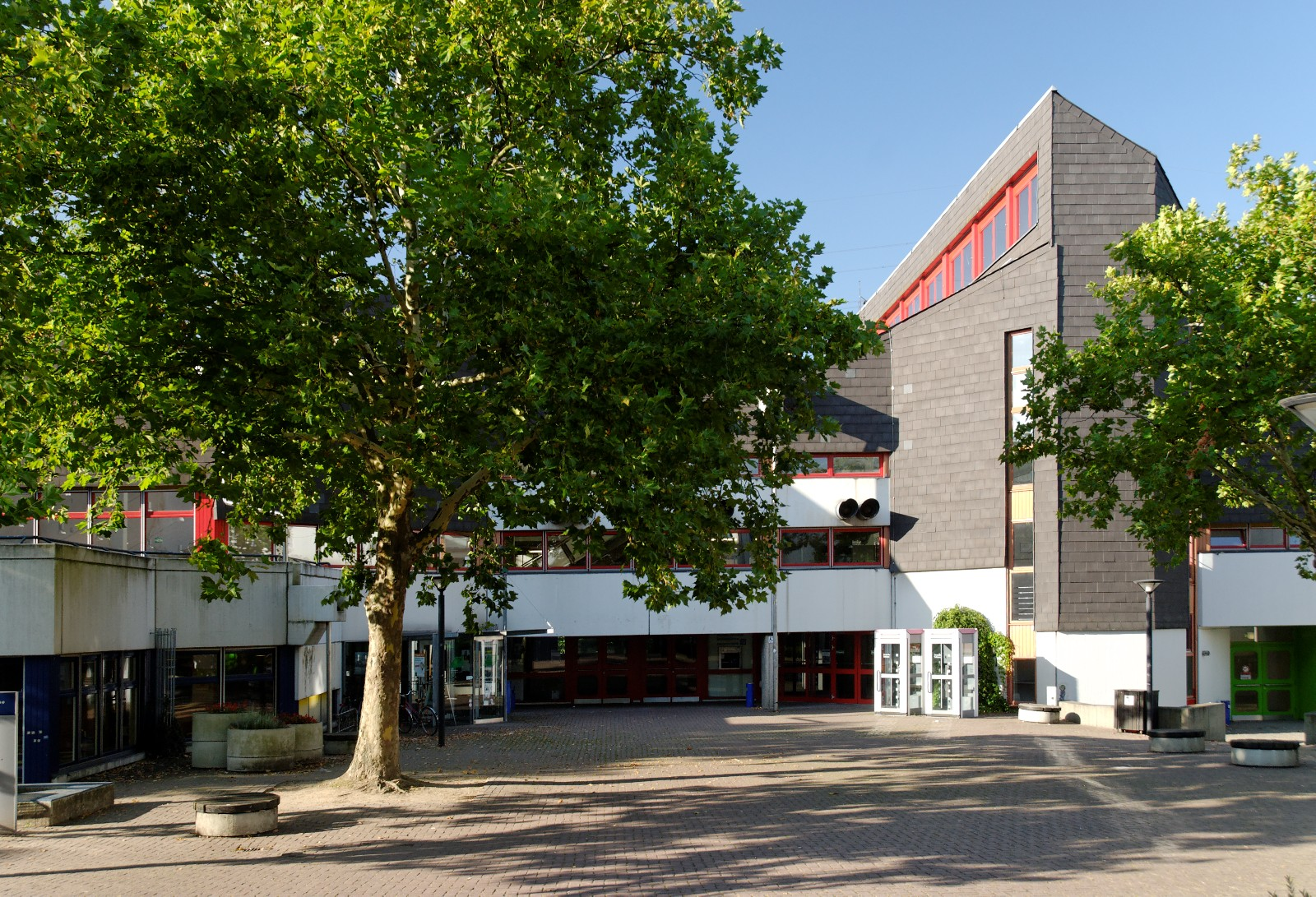 Refectory of the Heinrich-Heine-Universität Düsseldorf in Düsseldorf-Bilk, Germany